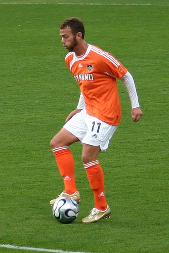 Brad Davis in action